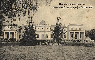 Volyshovo Pskov oblast